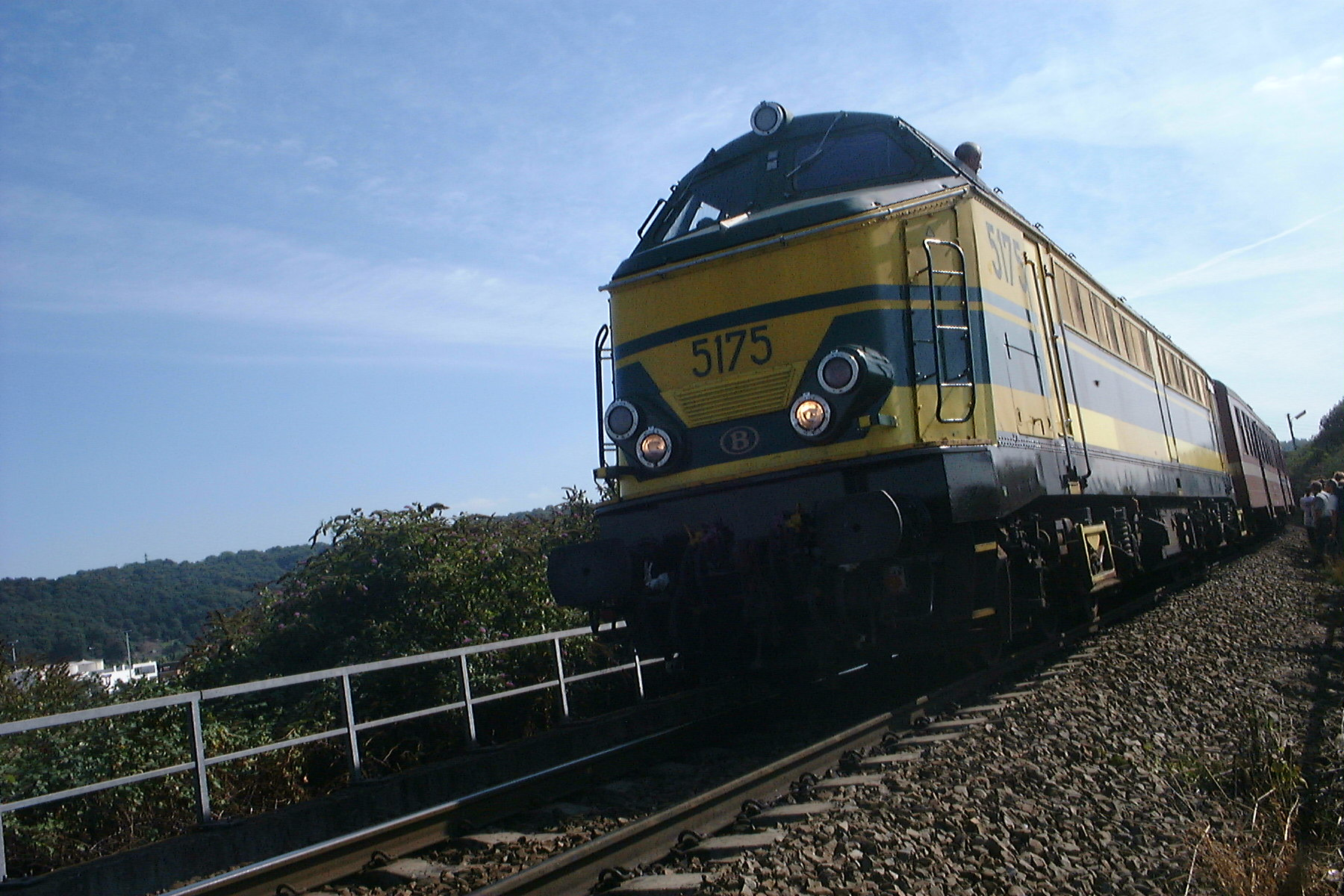 Last trip of class 51 locomotive, no. 5175.